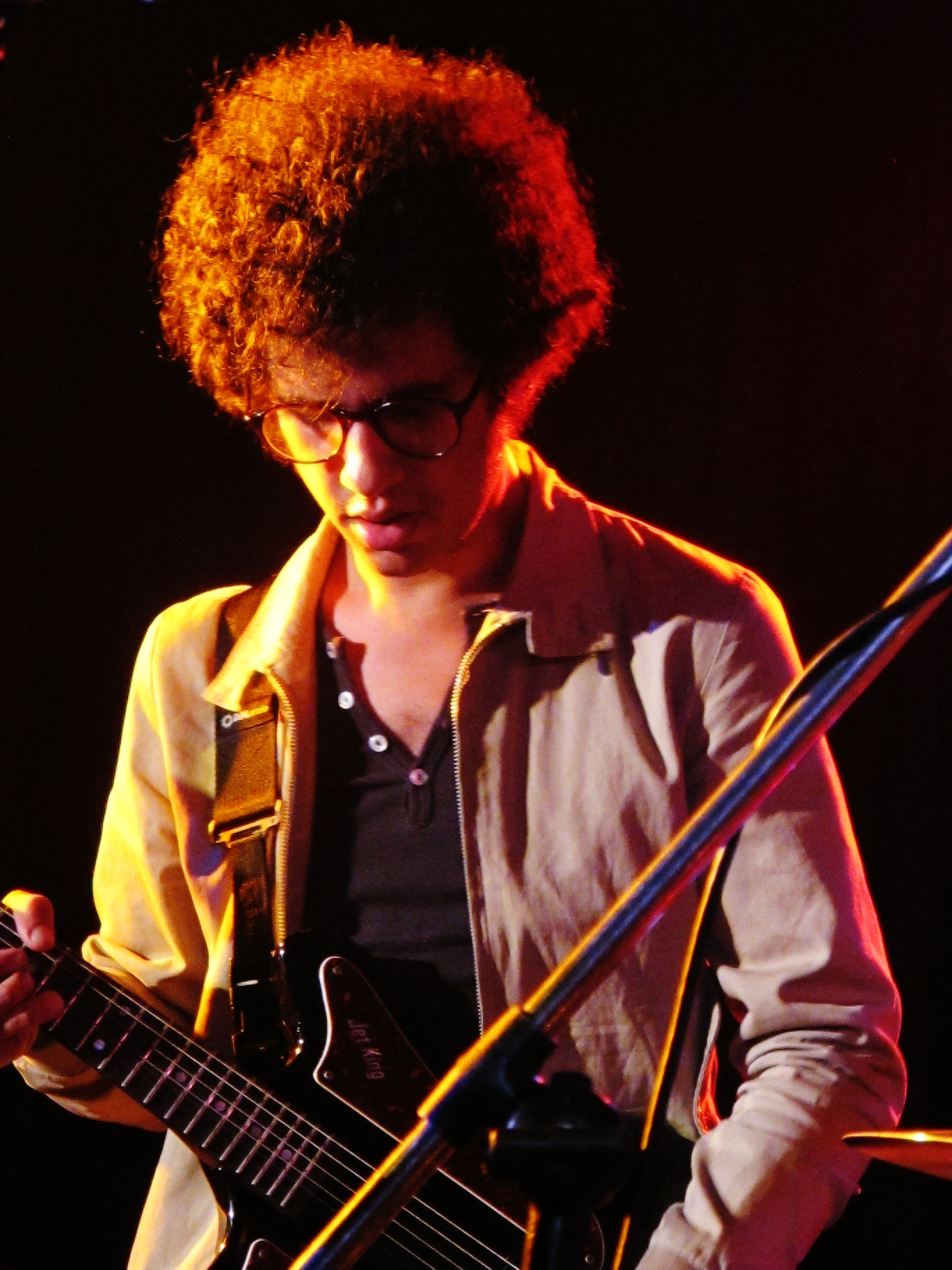 Omar Rodríguez-López / Le Butcherettes @ East Brunswick Club, Melbourne, Australia. Tuesday 13th December 2011.